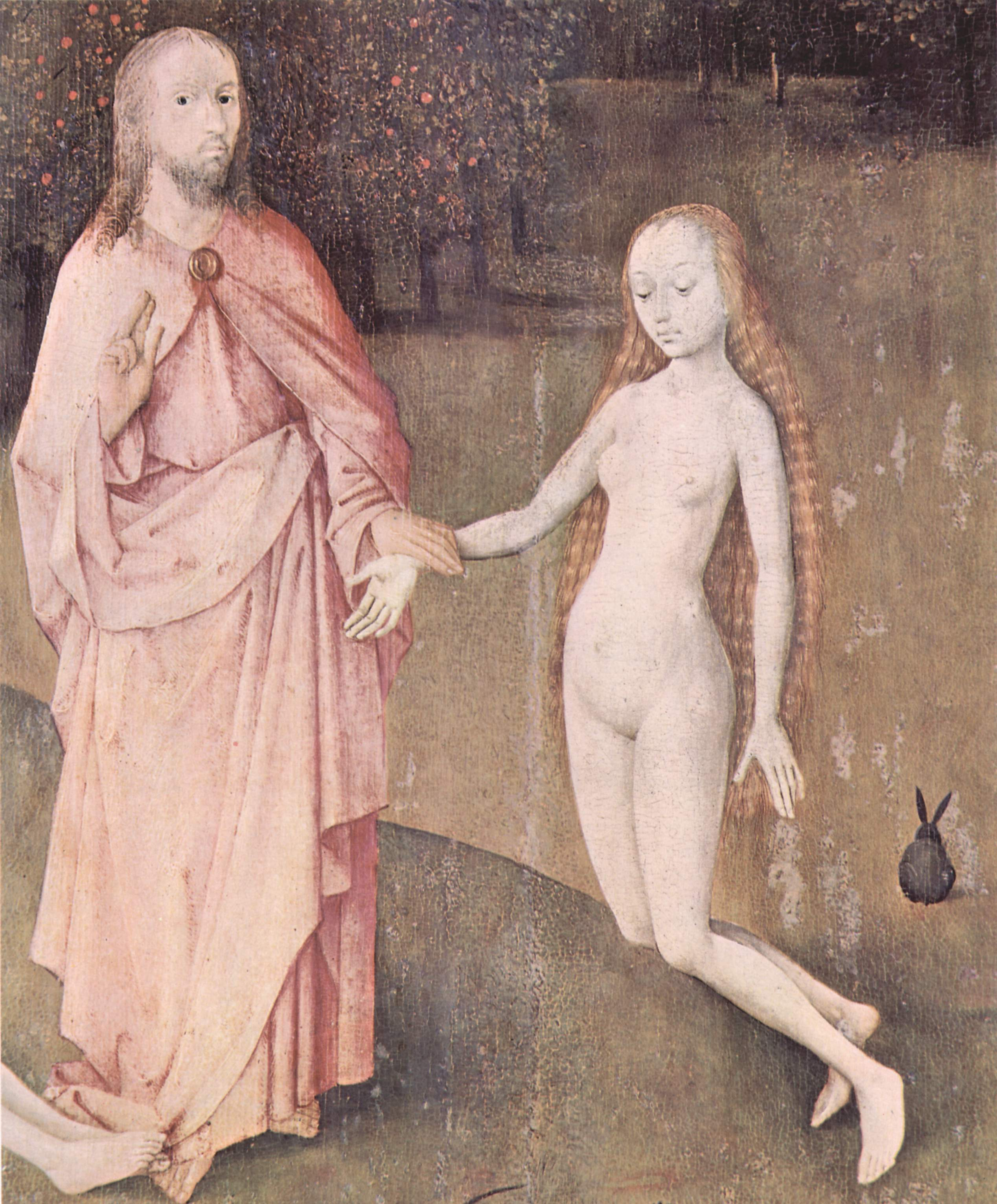 God holding the hand of Eve. Bottom right the feet of Adam sitting on the ground.